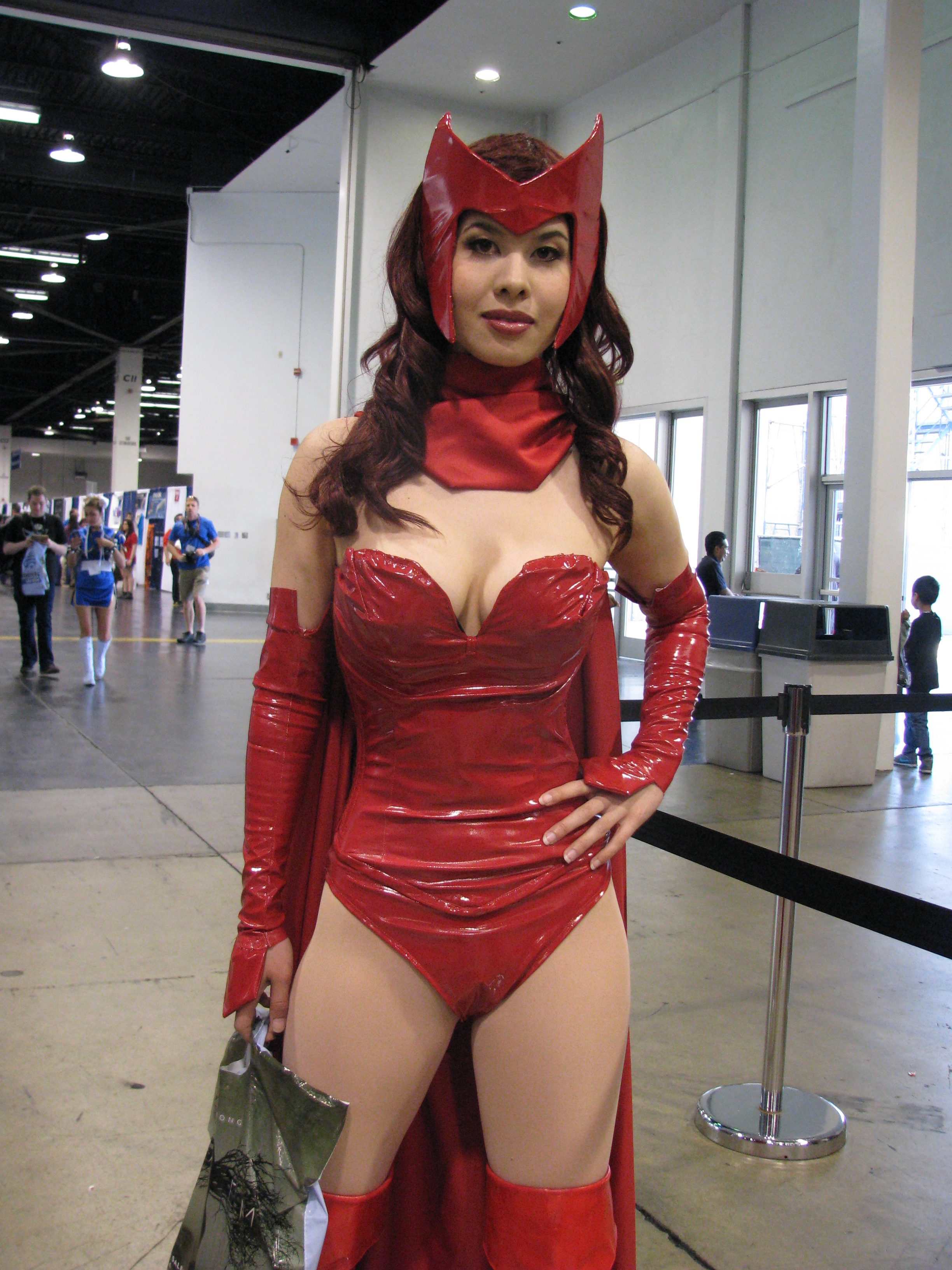 WonderCon 2014 - Scarlet Witch Cosplay